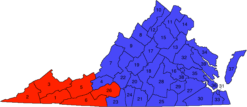 District boundaries of the Virginia Senate in 1908